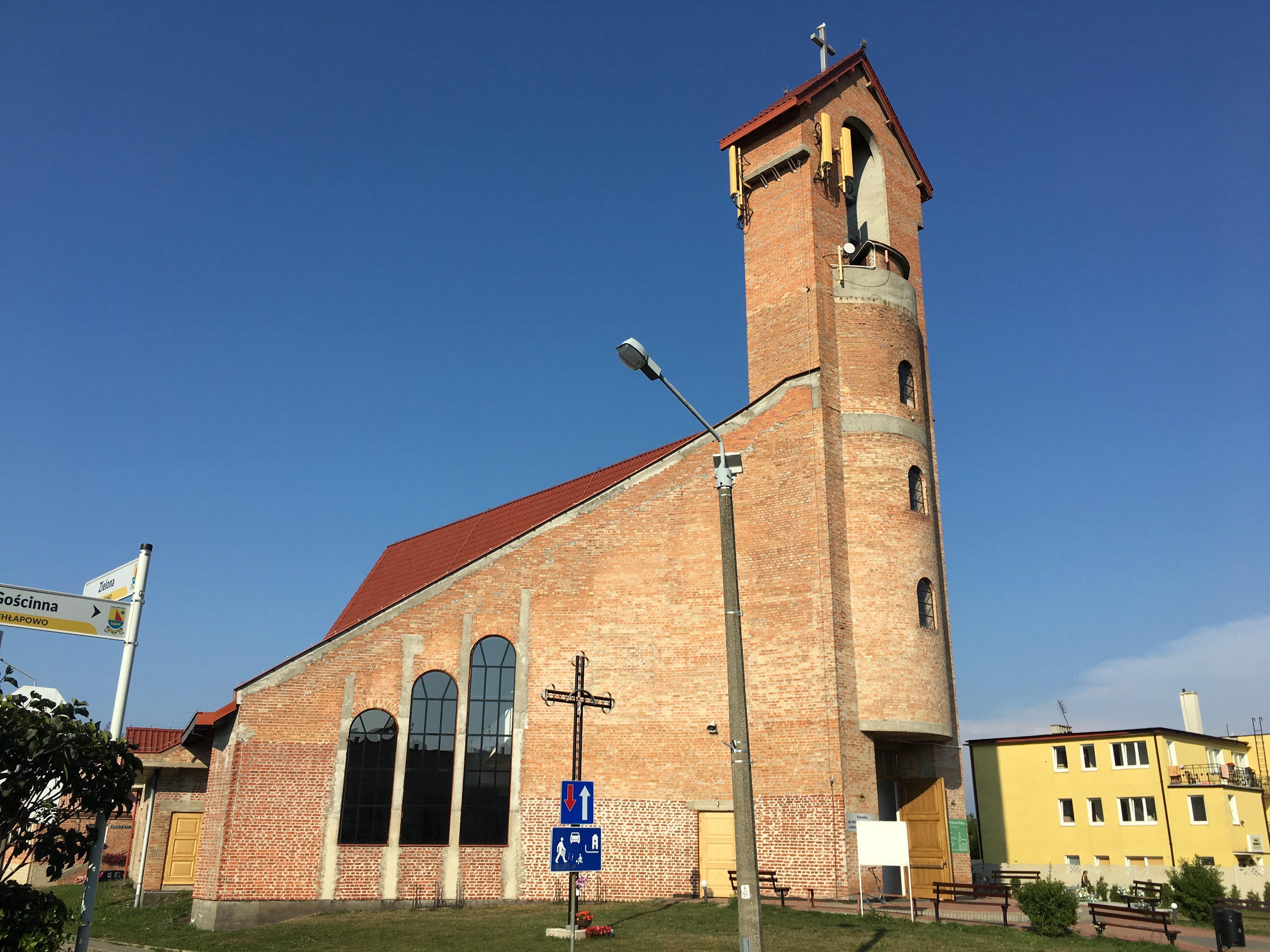 The Divine Mercy Church in Chłapowo